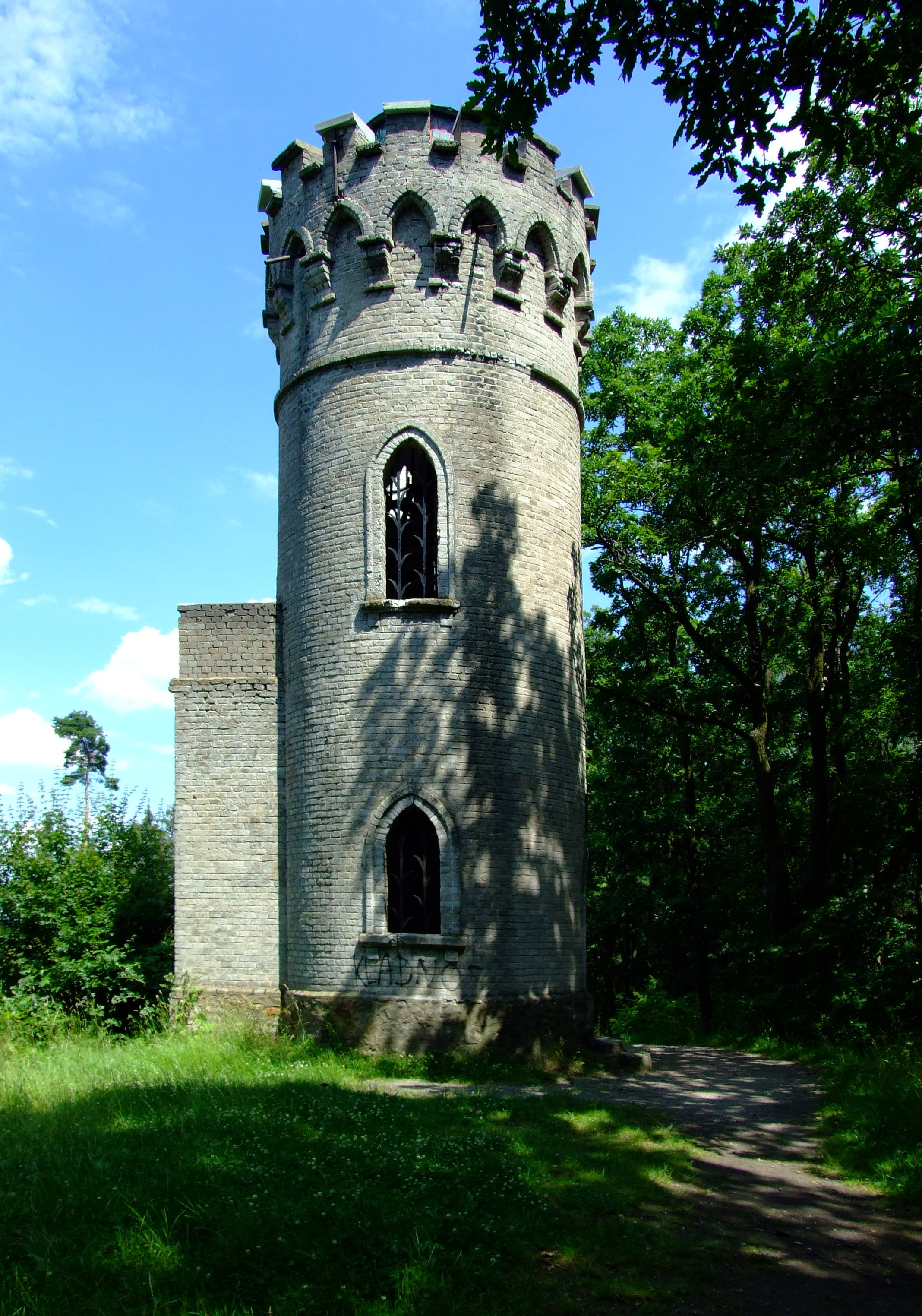 Lookout tower near Beroun, known as Děd u Berounahelp